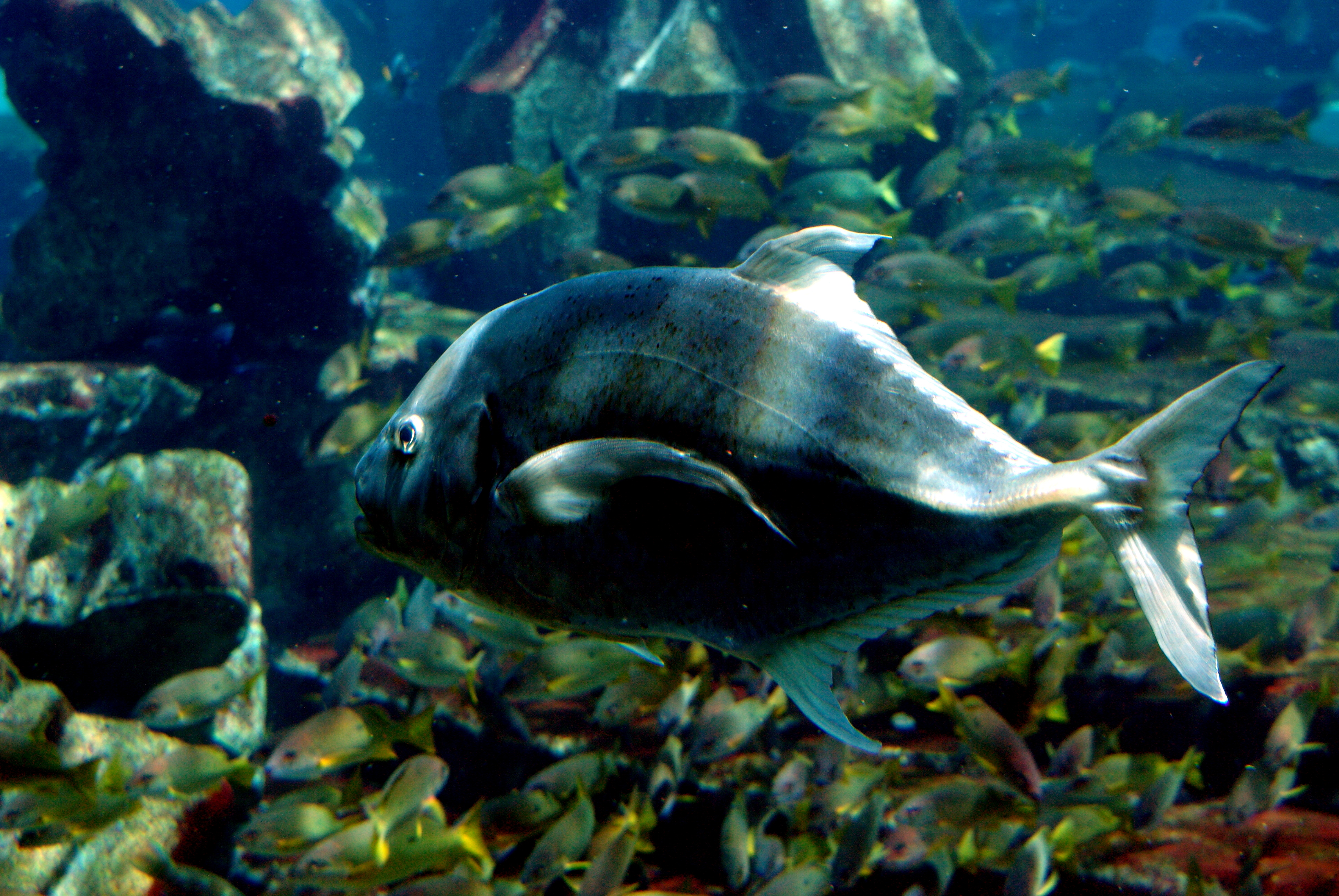 1Carangoides chrysophrys